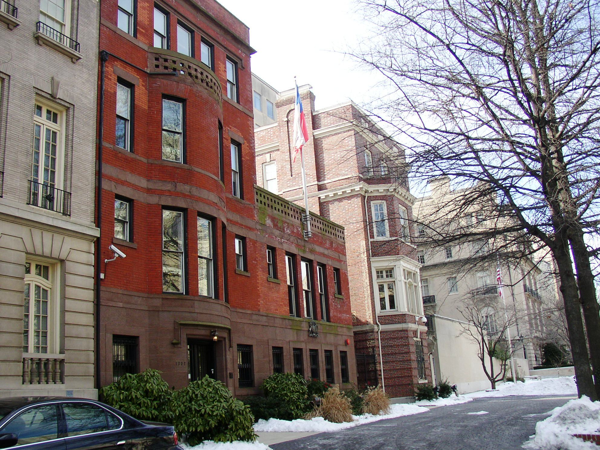 Photo of the embassy of Chile taken in Washington DC on a cold February day in 2007 by the uploader. All rights released. Williamborg 00:29, 25 February 2007 (UTC)